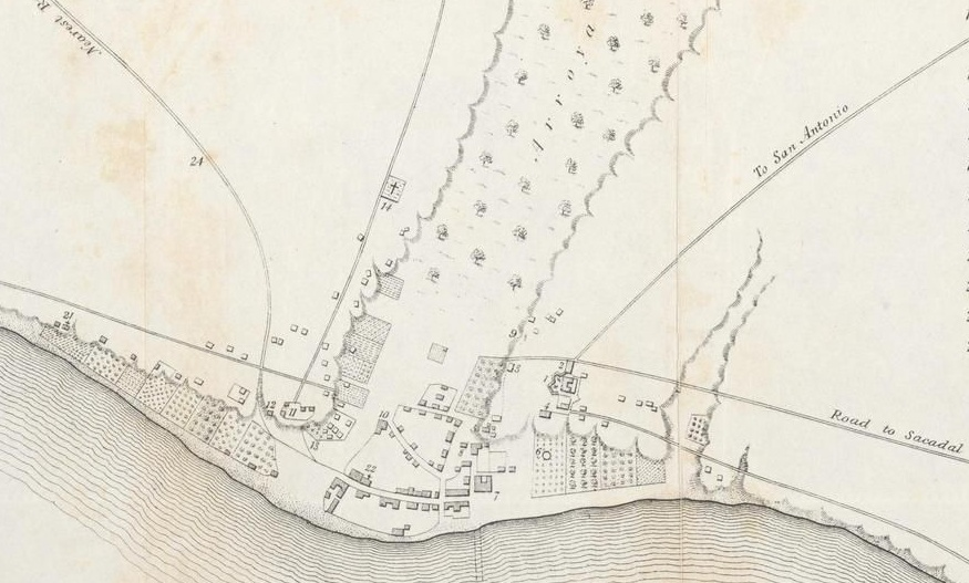 LaPaz 1847